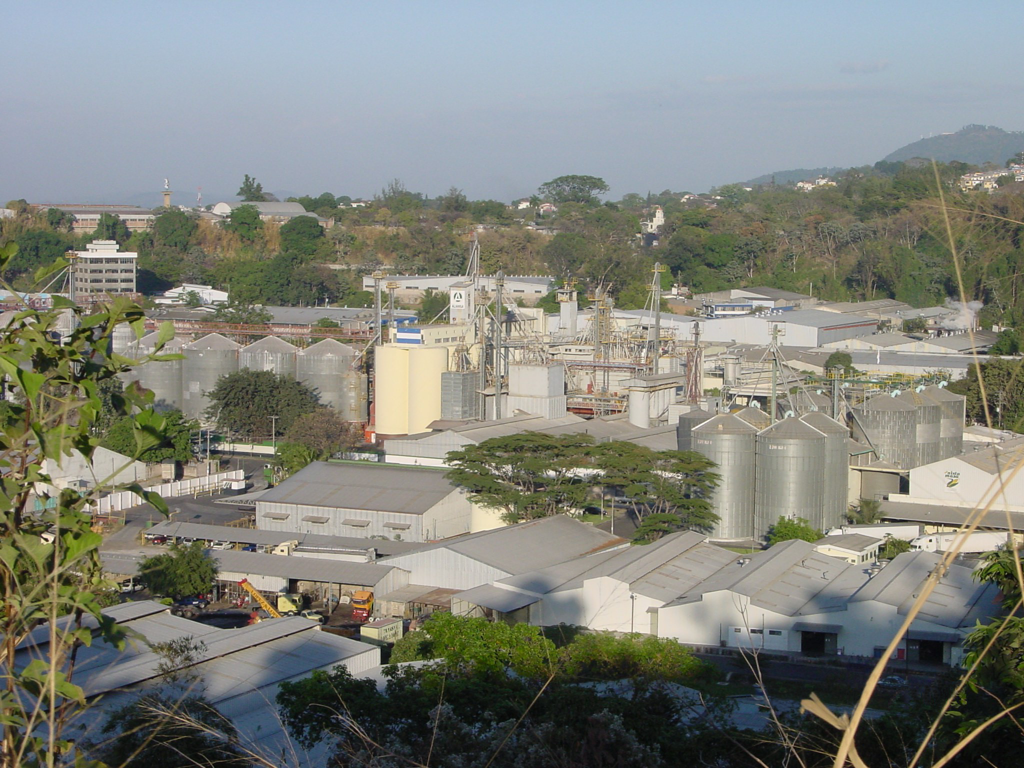 Fotografia tomada del Plan de La Laguna